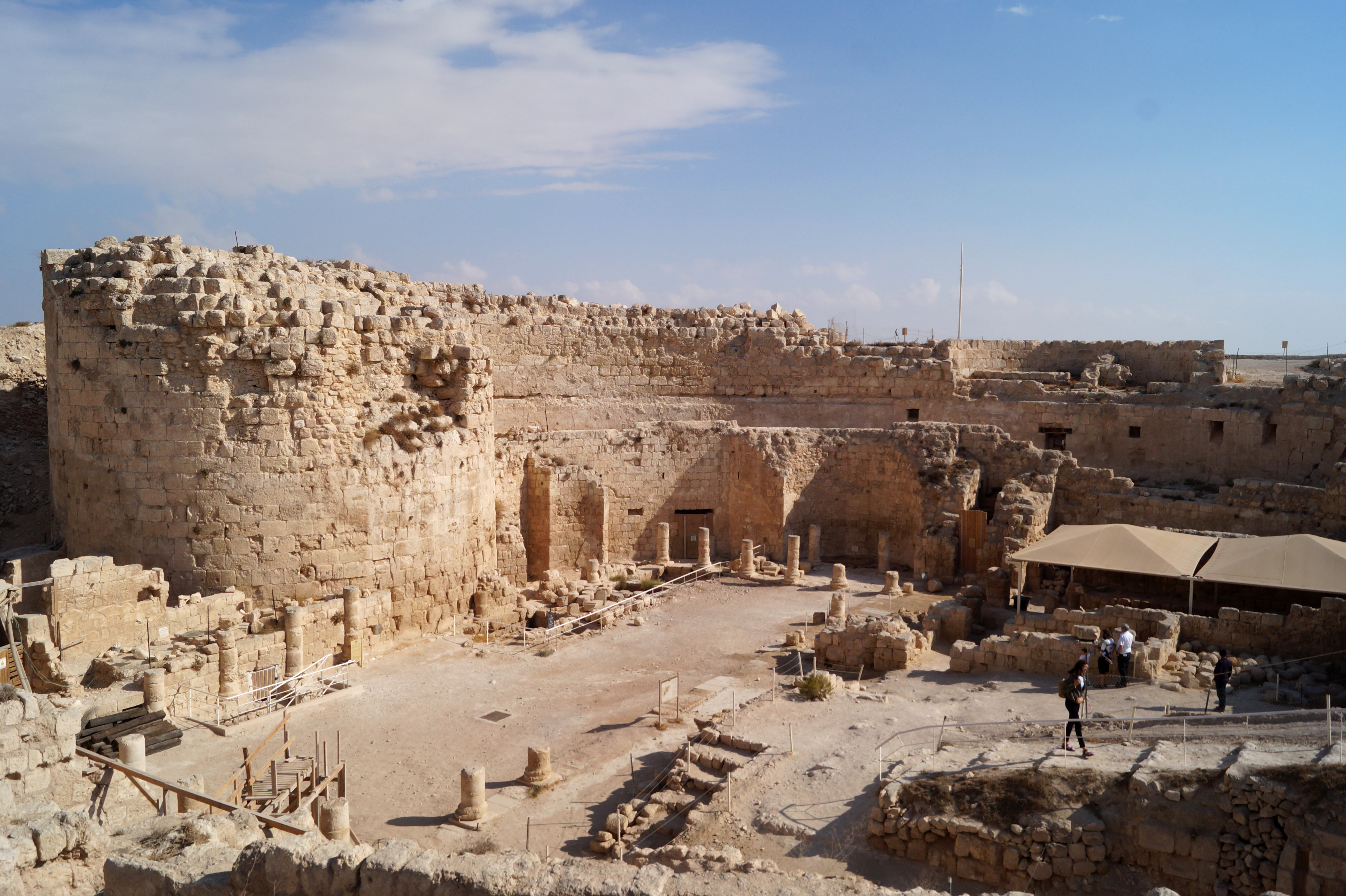 Inner courtyard of the Herodium near Jerusalem.